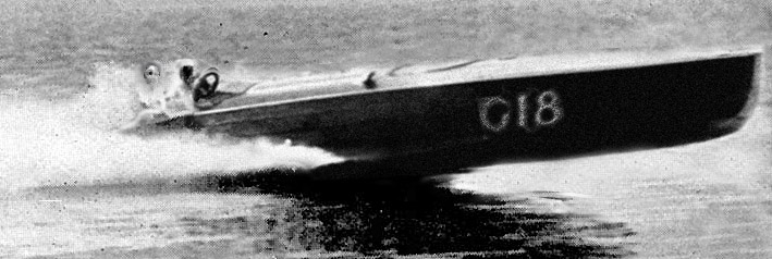 The 1933 Hacker-Craft "El Lagarto", perhaps the greatest wooden racer in boating history.